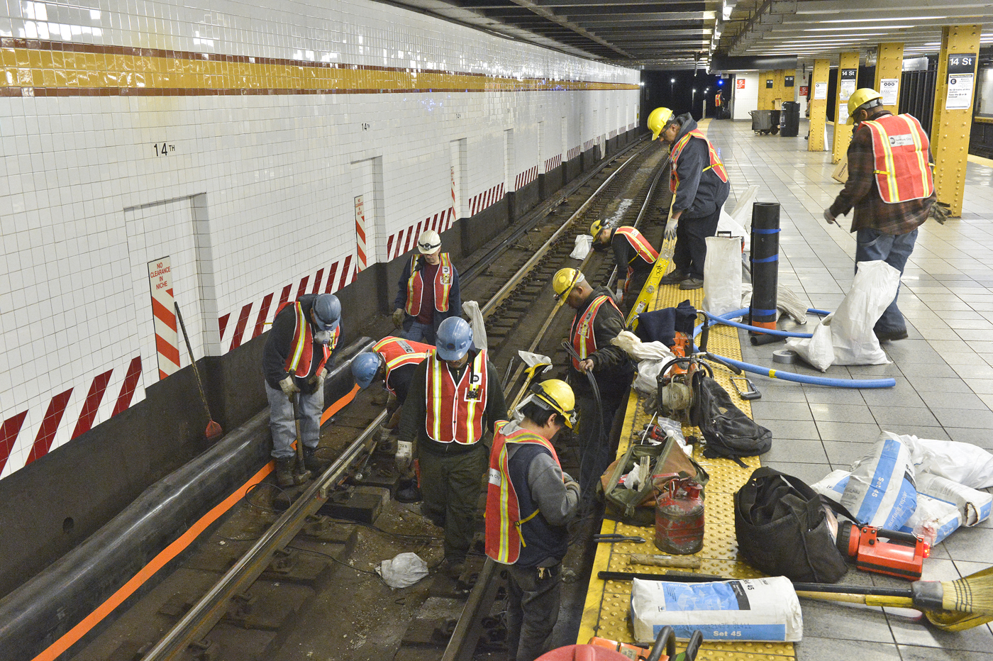 Eight hundred workers from MTA New York City Transit performed critical maintenance tasks on the A, C and E subway lines each night from April 23-27, 2012. Workers were able to replace rails and cross ties and scrape track floors, thereby removing muck and debris. In subway stations, paintable areas not reachable during normal train operation were scraped, primed and painted. Maintenance crews also took the opportunity to clean lighting fixtures, change bulbs and repair platform edges while performing high-intensity station cleaning. These photos show a small sample of what they did. Photo: Metropolitan Transportation Authority / Patrick Cashin.